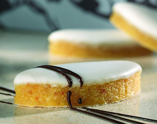 Calissons